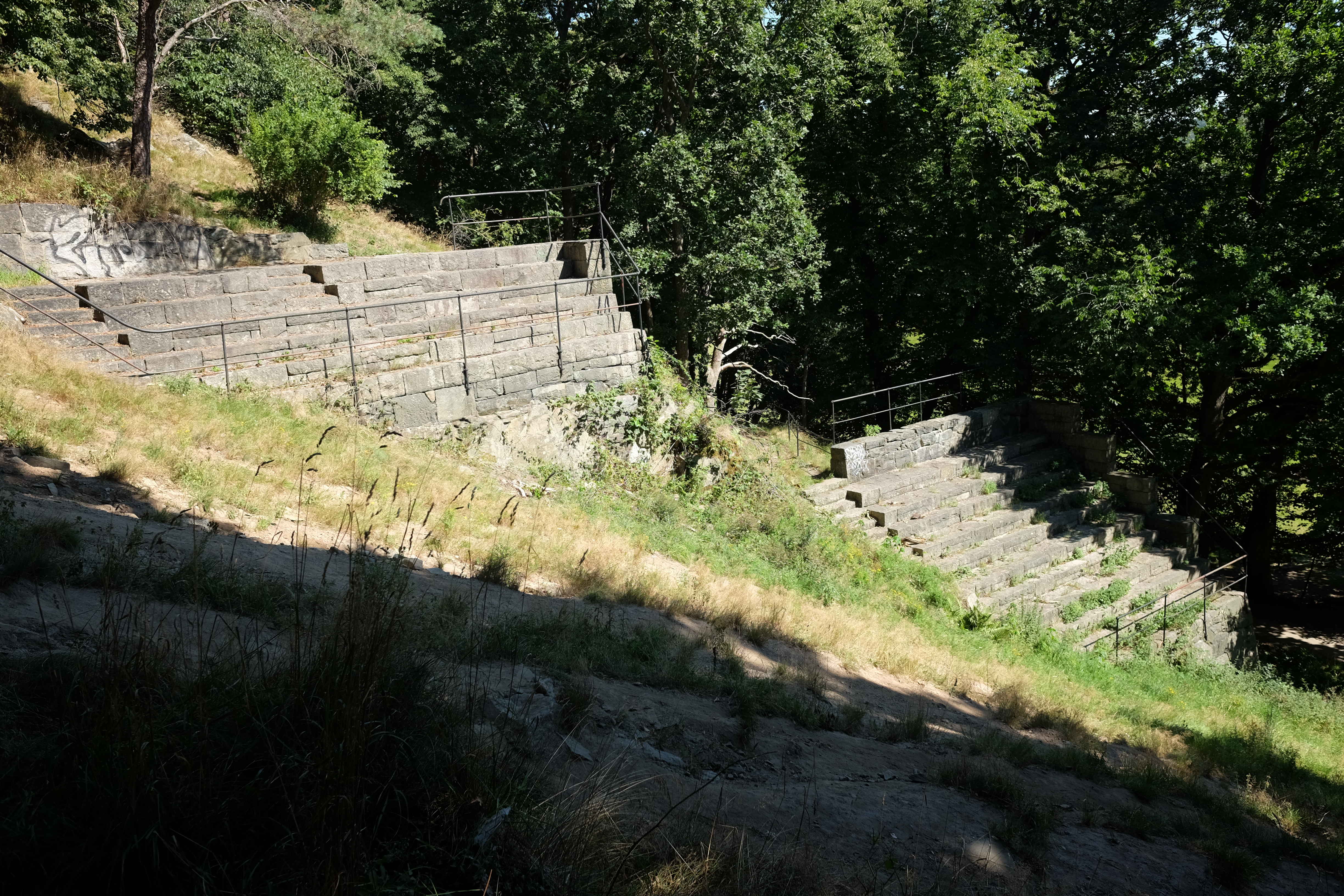 Bragebacken, a former ski jumping hill in Slottskogen in Göteborg.